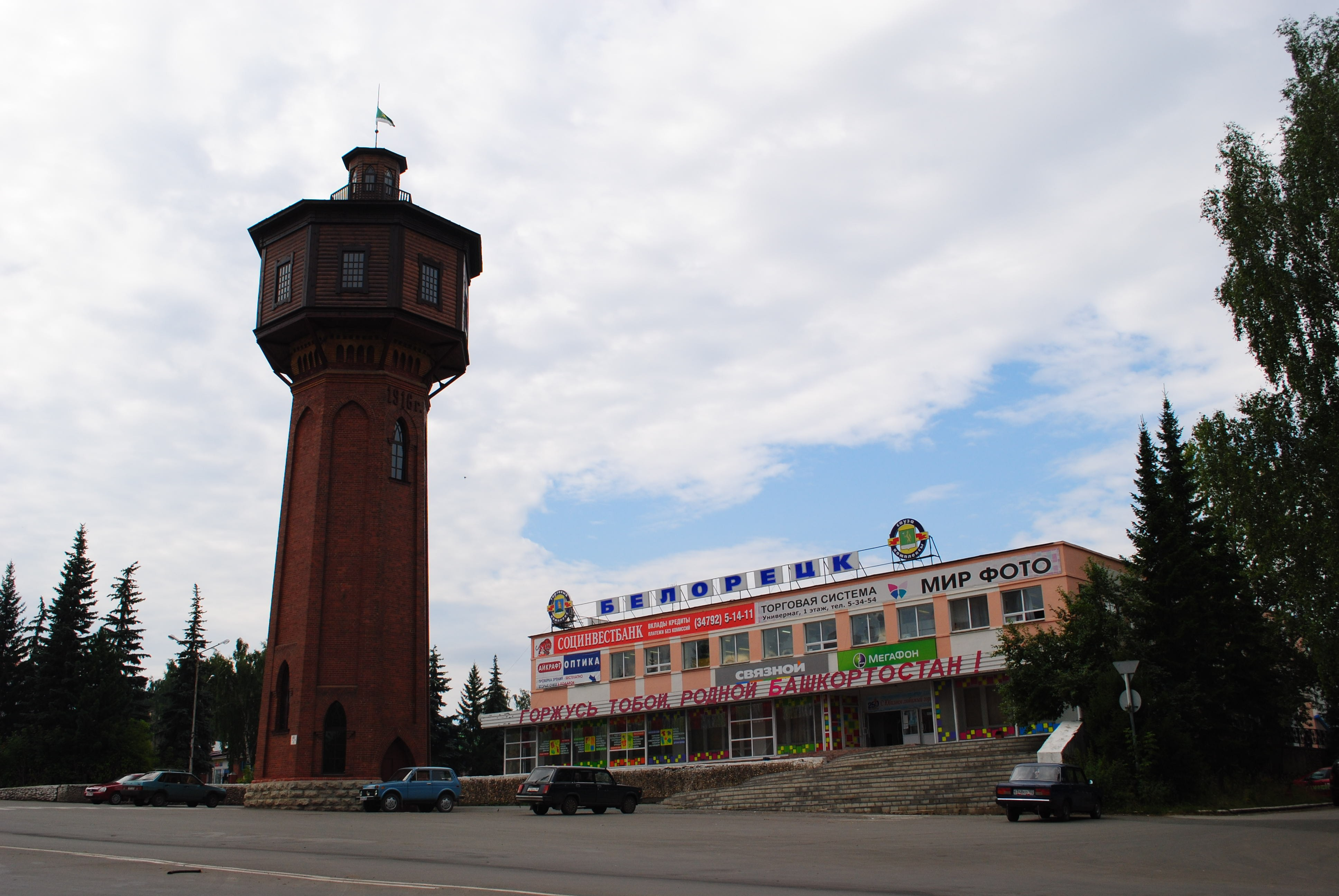 Beloretsk water towerБашҡортса: Белореттың һыу ебәреү манараһы